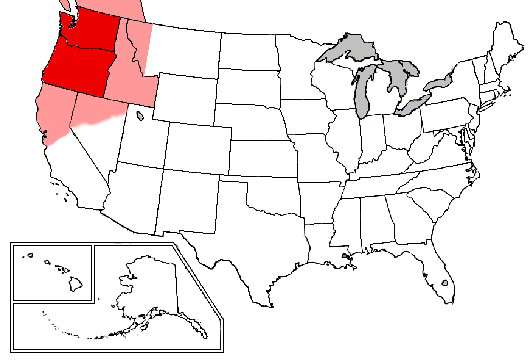 Pacific Northwest of America: Map of states which are part of the PacNW dark red means that the marked states are always meant to be part of the PacNW light red means that the marked stats are sometimes meant to be part of the PacNW